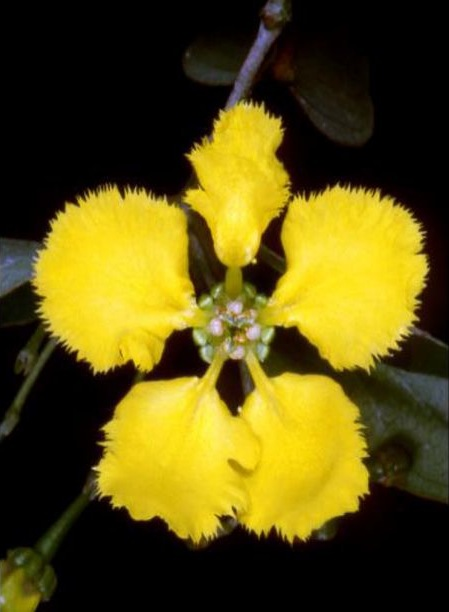 Flower of Stigmaphyllon sp. (Malpighiaceae).